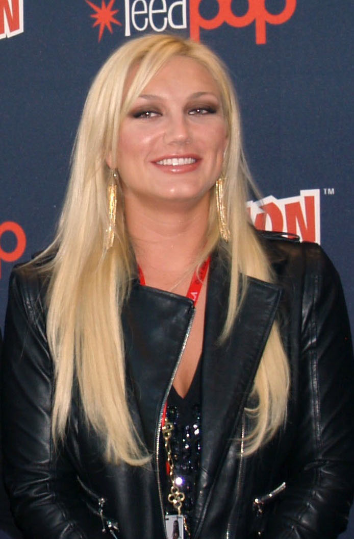 Actress/singer Brooke Hogan during a press event for the Cartoon Network TV series China, IL (on which Hogan has done voice work) and Rick and Morty at the Jacob K. Javits Convention Center in Manhattan, on Saturday October 12, 2013, Day 3 of the 2013 New York Comic Con.